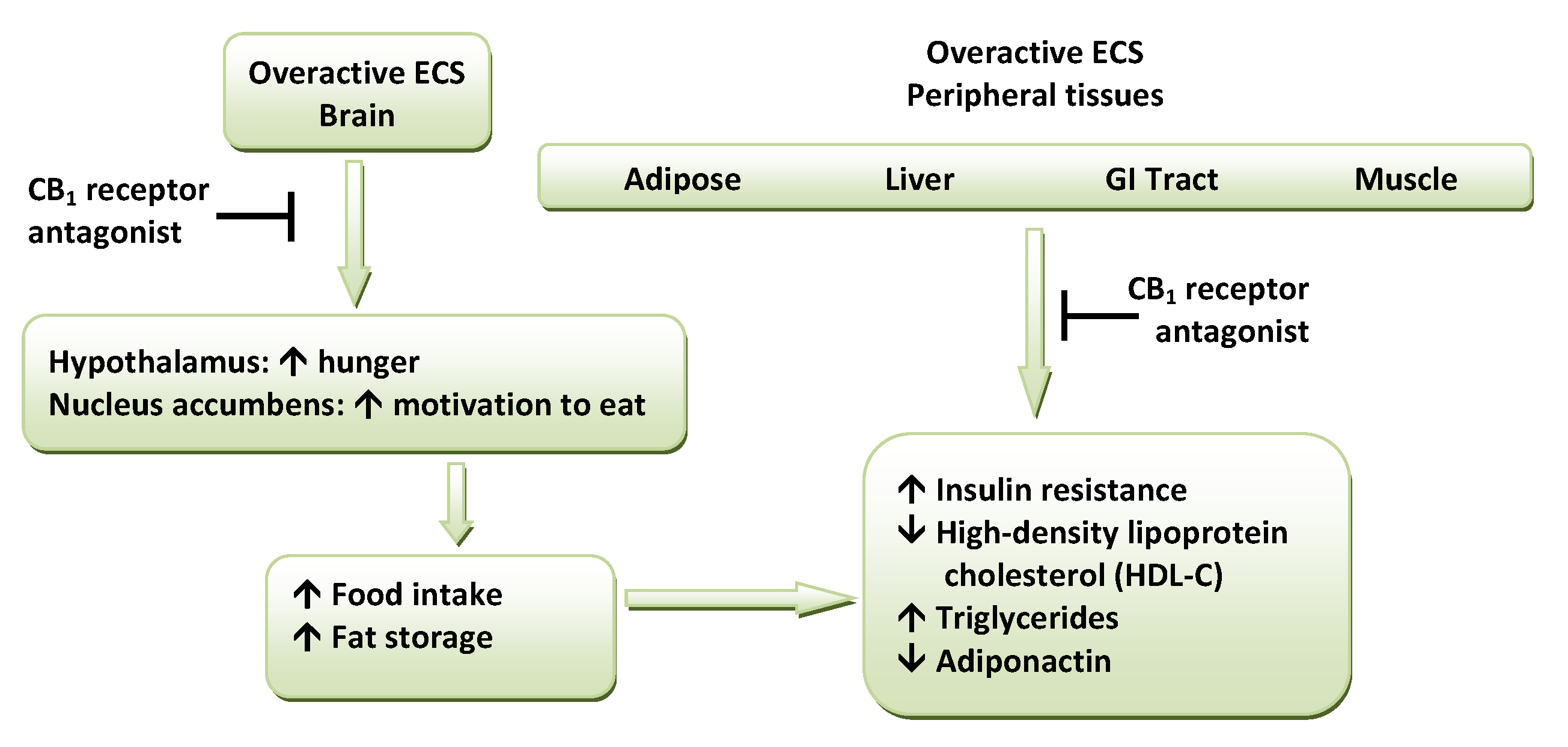 Hypothetical model for the metabolic effects of CB1 receptor antagonism. ECS stands for endocannabinoid system.